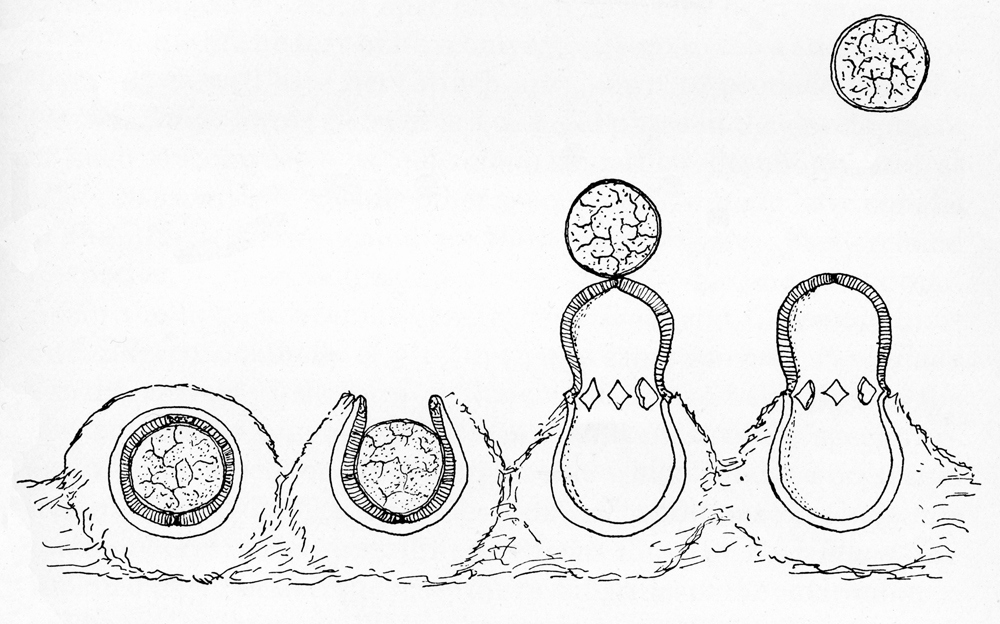 Original caption reads: "Sphaerobolus stellatus Tode.; stages in the liberation of the peridiolum, x 12; after W.G. Smith."